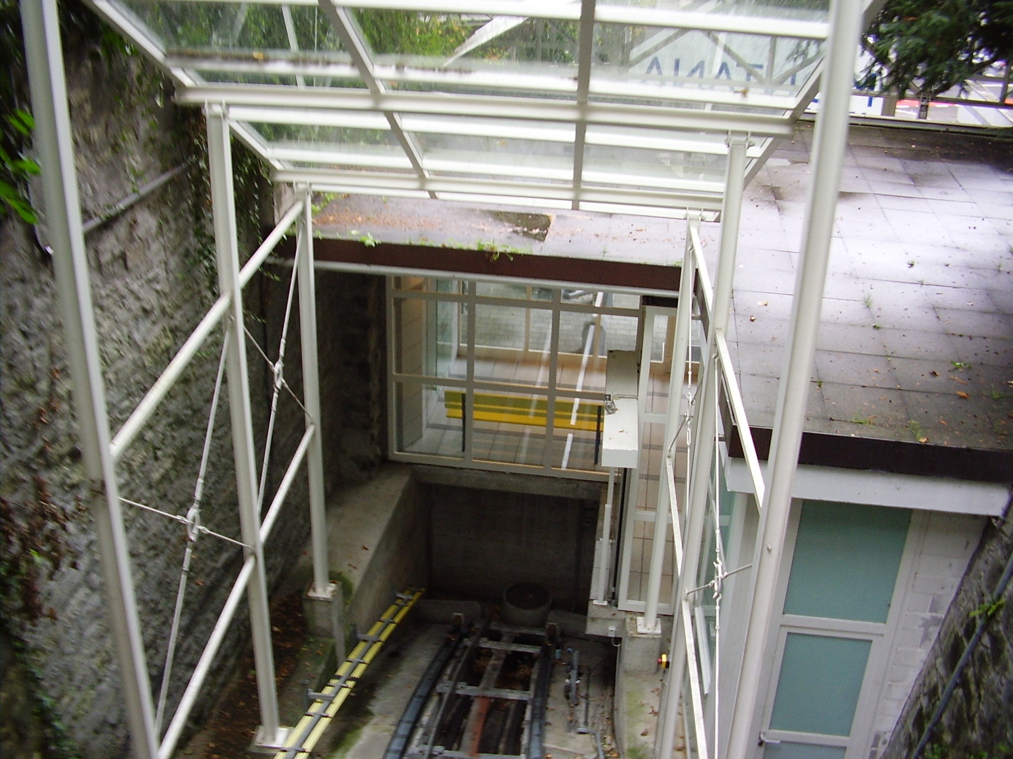 Bottom station of the smallest funicular worldwide (inside)